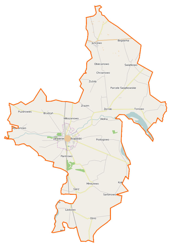 Map of Gmina Janowiec Wielkopolski, Poland This map of Janowiec Wielkopolski (gmina) was created from OpenStreetMap project data, collected by the community. This map may be incomplete, and may contain errors. Don't rely solely on it for navigation. Border coordinates52.868517.3986←↕→17.628352.6668